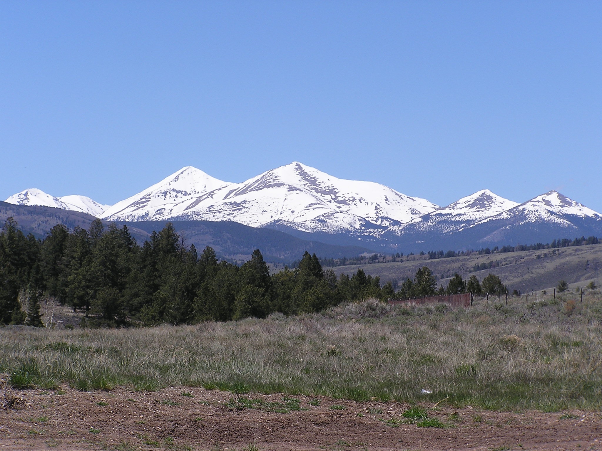 Mount Aetna & Taylor Mountain. A mid-afternoon view taken from the summit of Poncha Pass, along US-285.